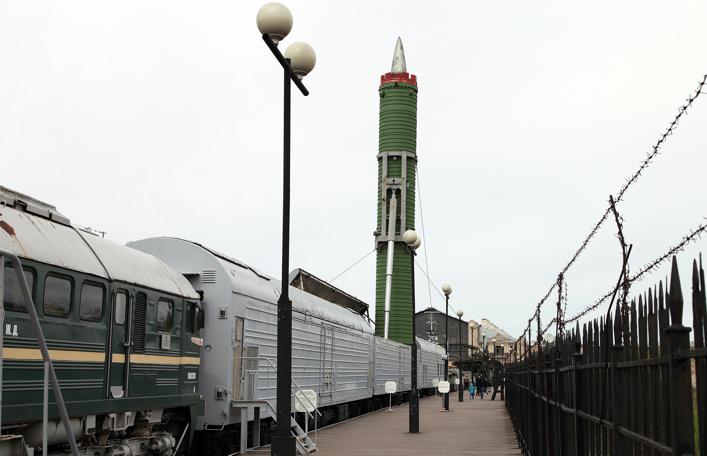 Military railway missile complex 15P961 Molodets with RT-23 UTTKh ICBM